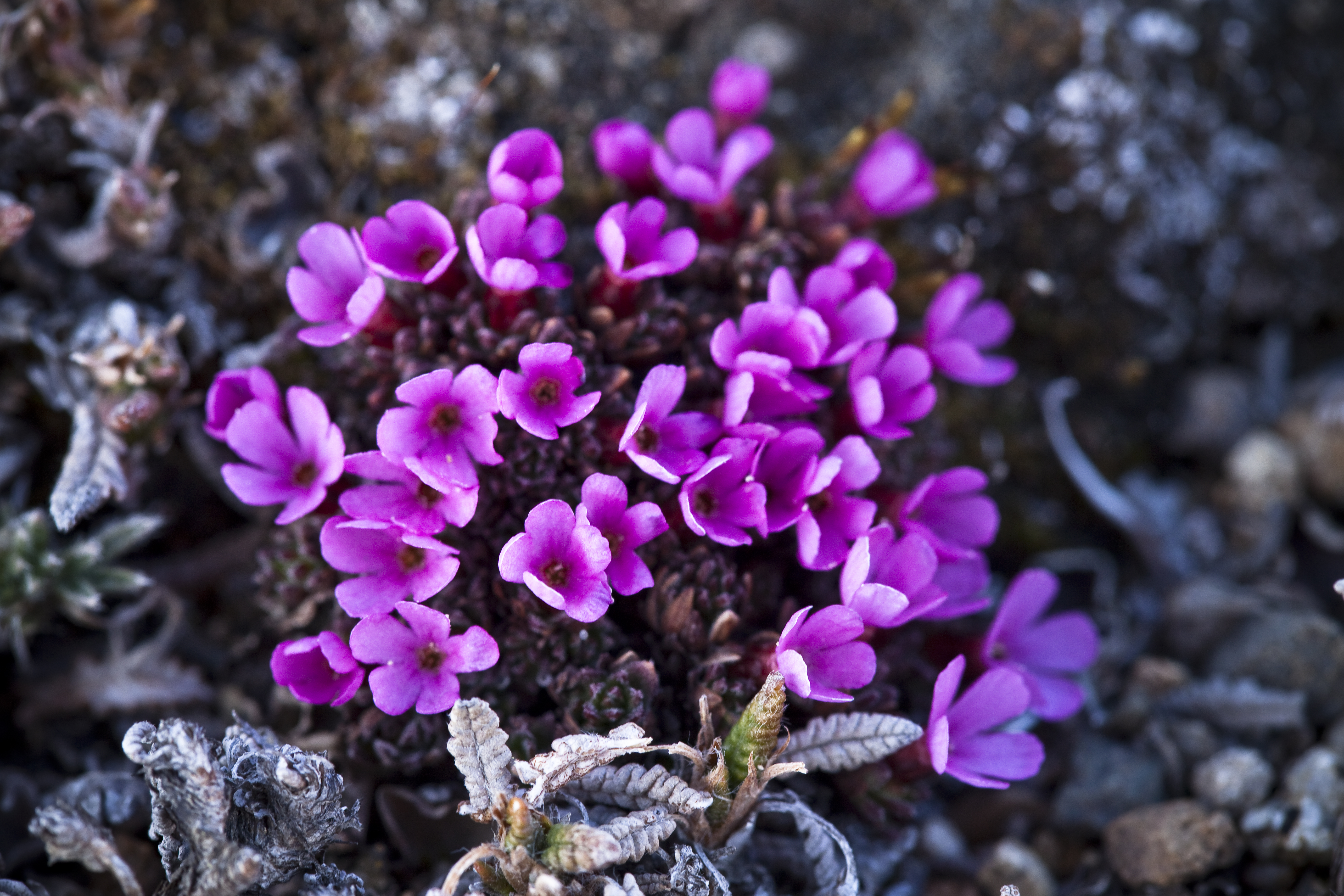 Androsace constancei syn. Douglasia gormanii, Denali National Park and Preserve, AK, USA